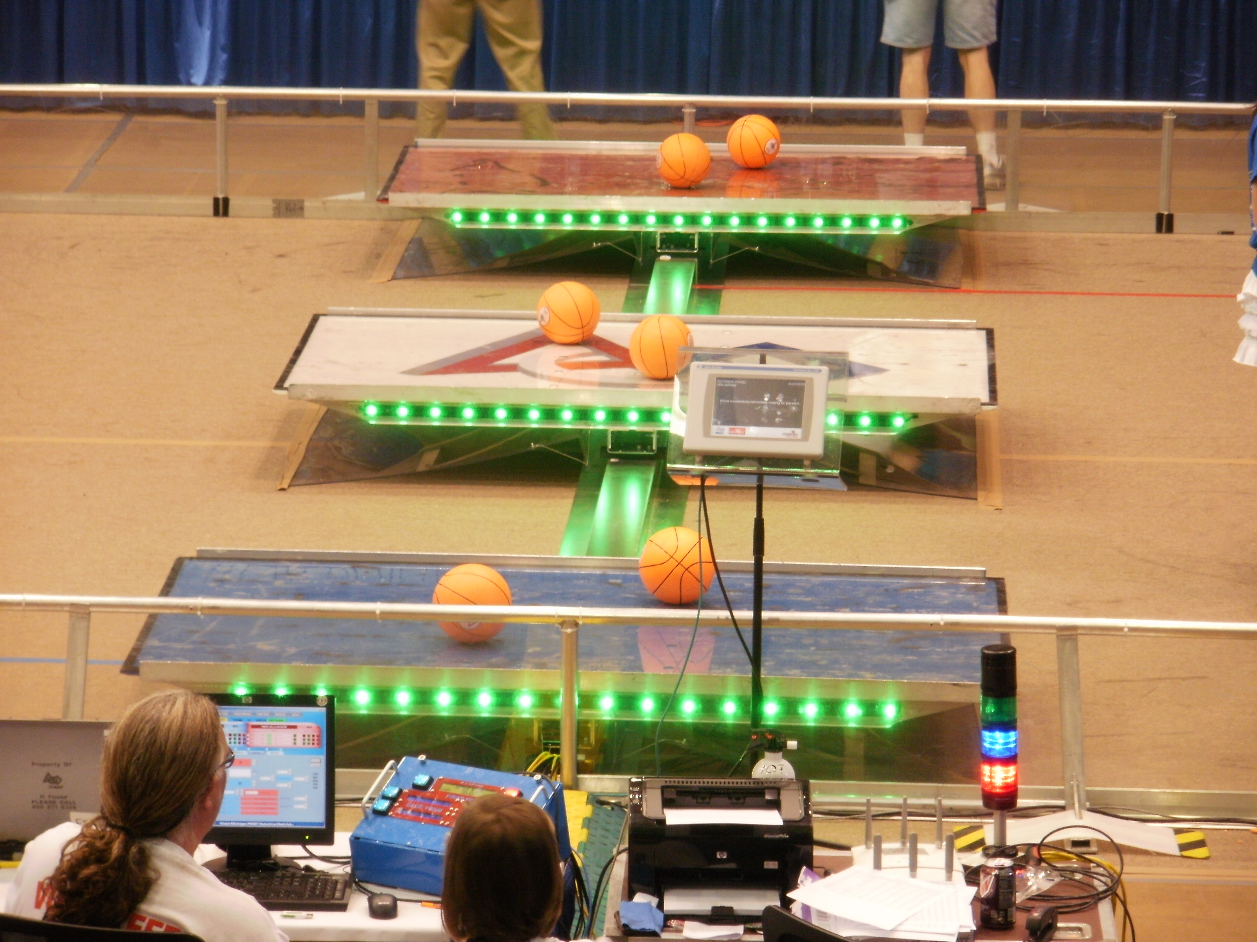 2012 FIRST Robotics Competition game Rebound Rumble showing the bridges across the middle of the field.